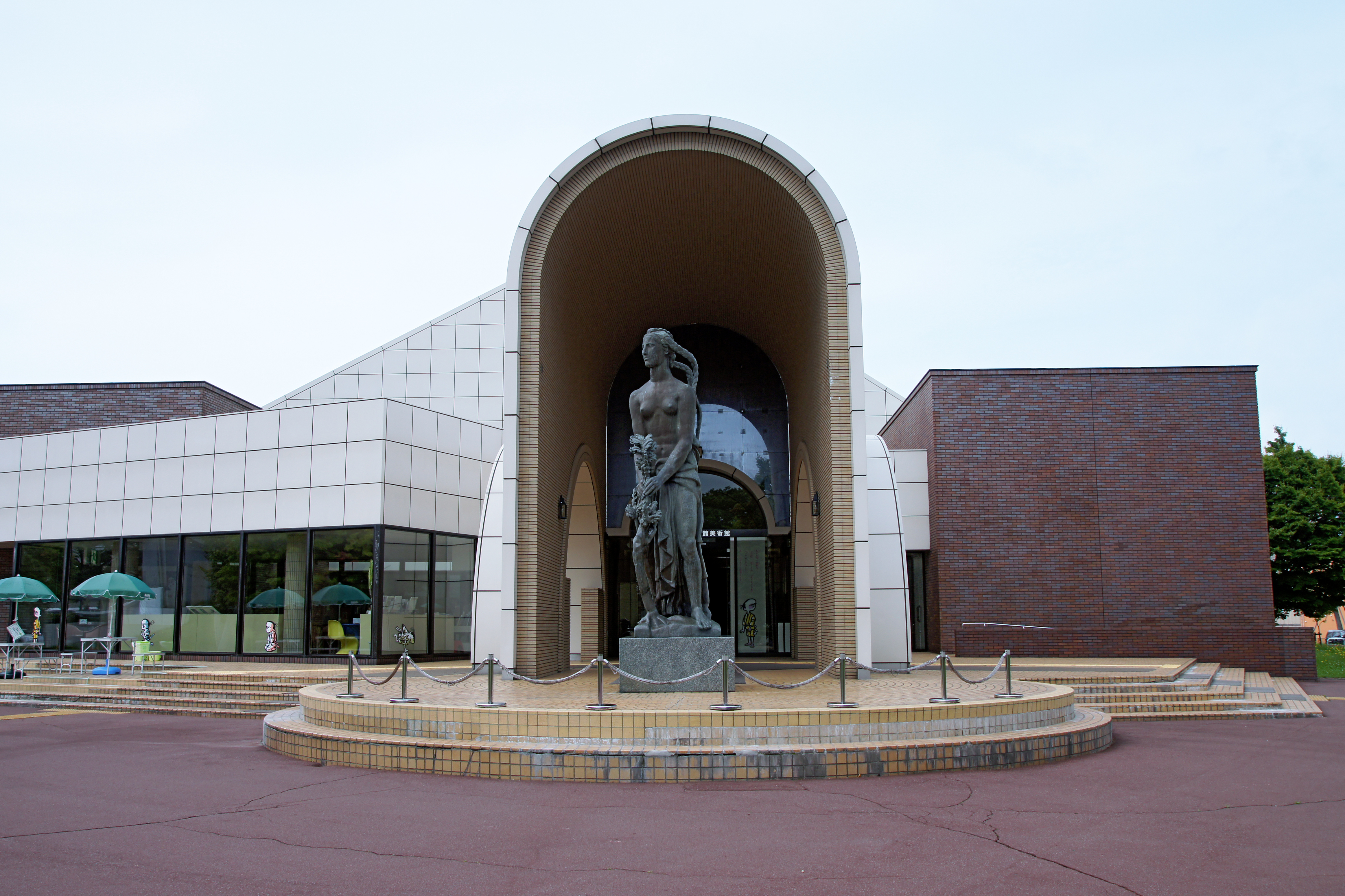 Hakodate Museum of Art, Hokkaido in Hakodate, Hokkaido prefecture, Japan